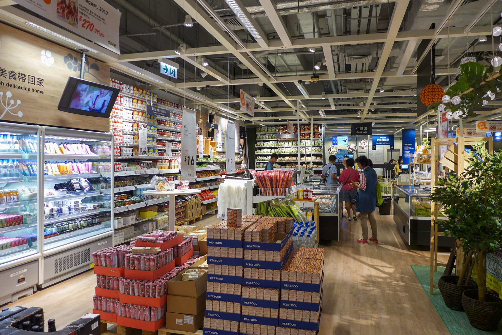 IKEA Food market in MegaBox